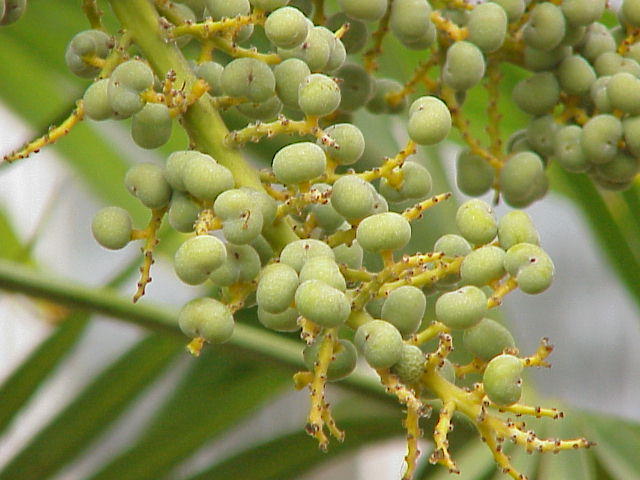 Species: Trachycarpus fortunei Family: Palmae Image No. 2